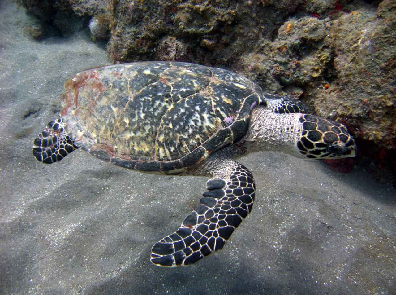 hawksbill turtle off the coast of Saba